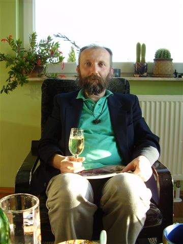 Nazar Honchar, poet from Lviv, Ukraine